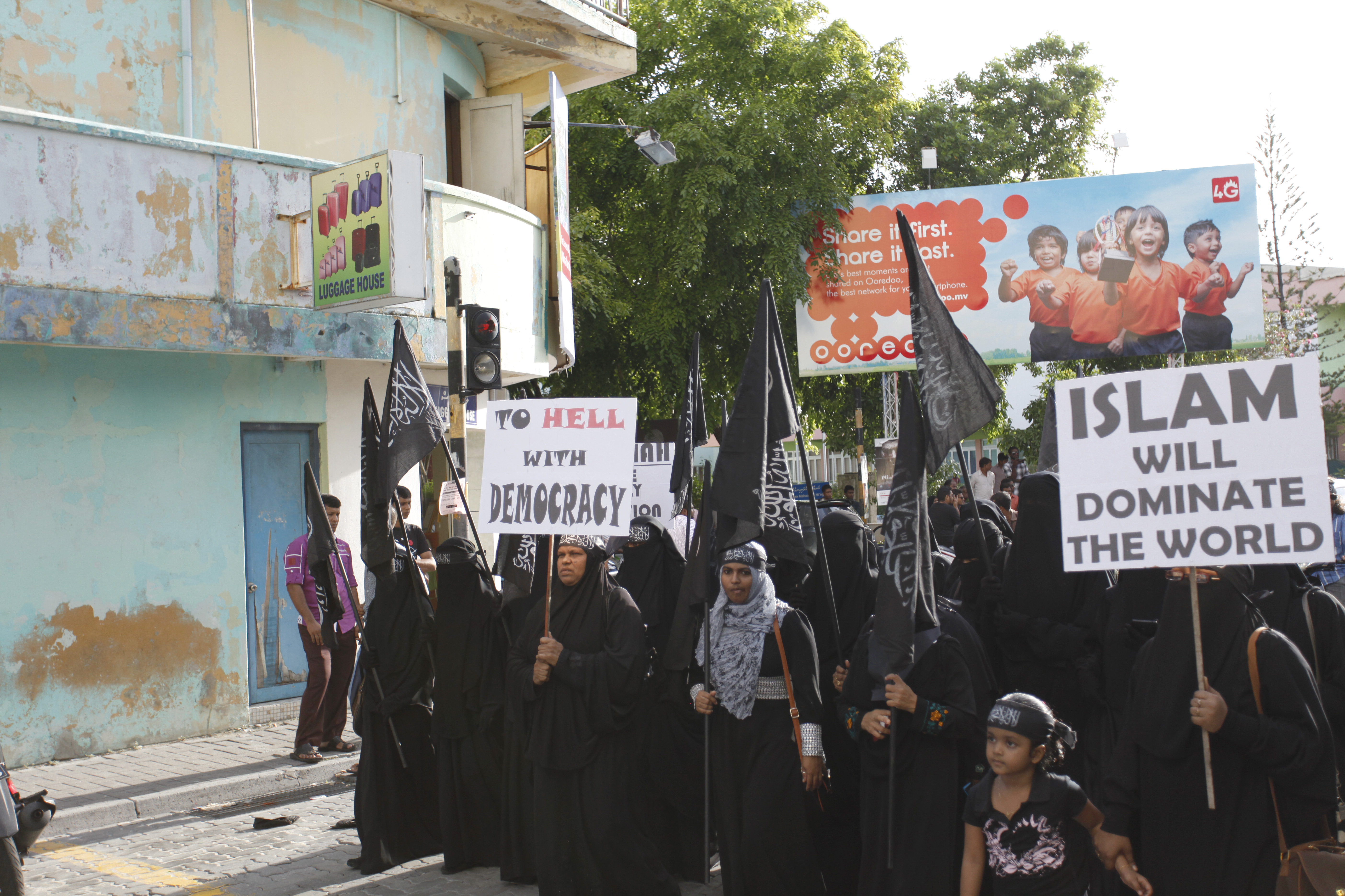 Muslim demonstrators carry signs reading "Islam will dominate the world" and "To hell with democracy" in Maldives, September 2014. According to Minivan News, "Some 200 people, including about 30 women in black niqab and 10 children, took part in the march across the capital."